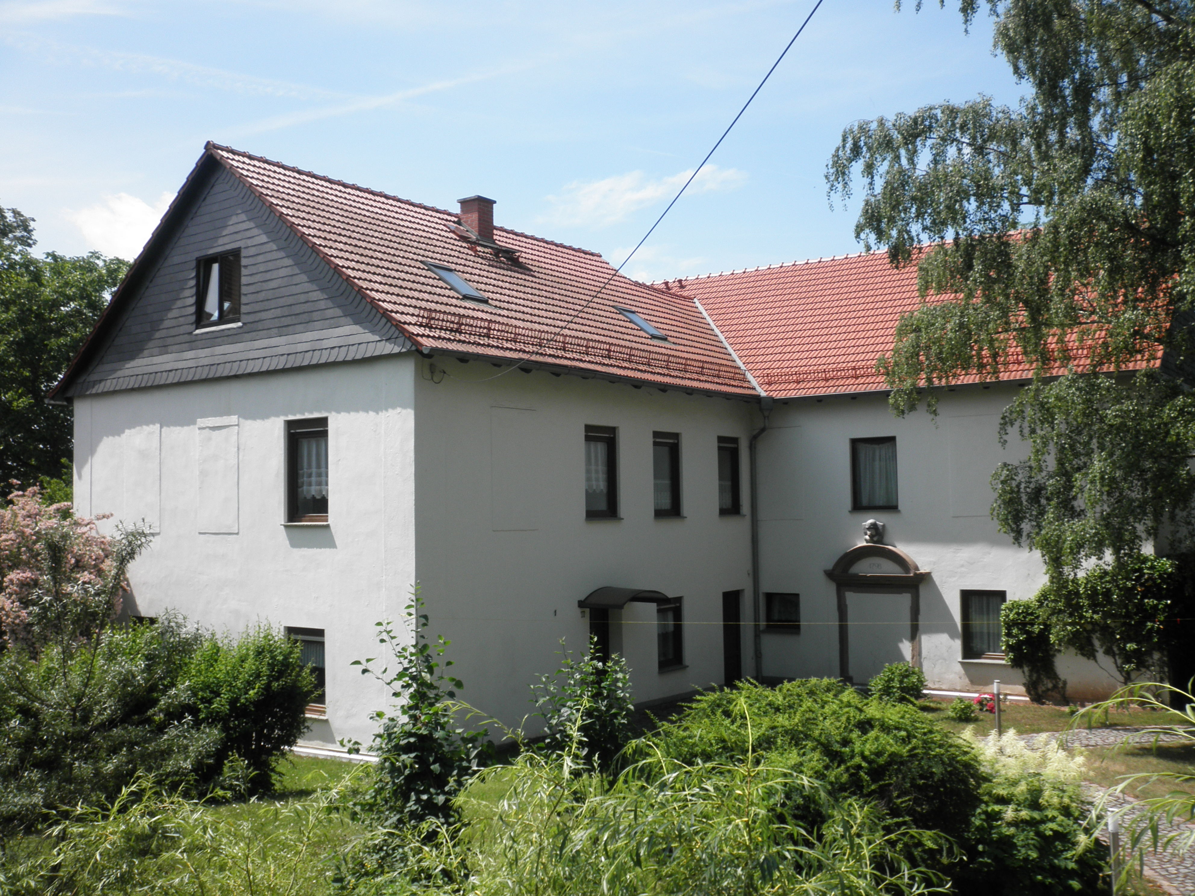 Rest of Manor House in Mosen (Wünschendorf) in Thuringia